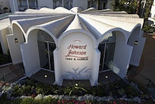 Lobby pavilion — Howard Johnson Plaza Hotel at Disneyland, Anaheim, California. Hotel designed by William L. Pereira.